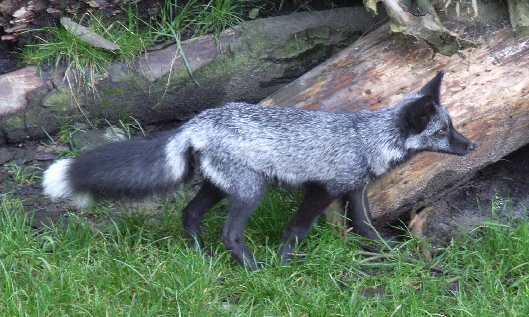 Silver fox